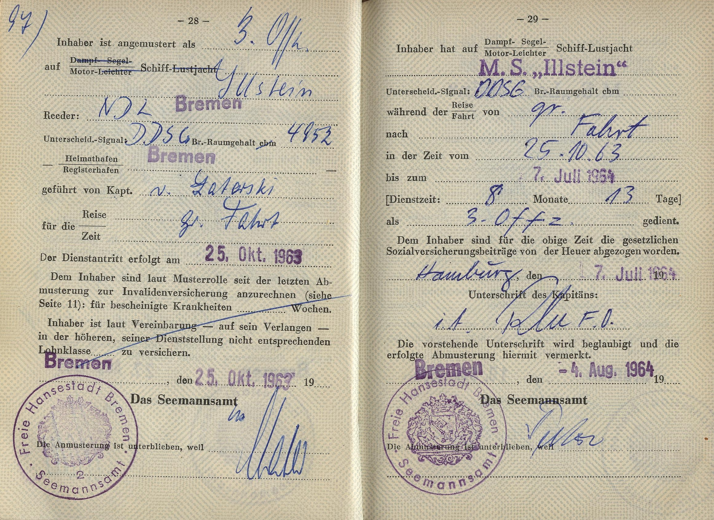 Discharge book MS Illstein NDL - Captain Walter von Zatorski - here 3.O., own book - 1963-64